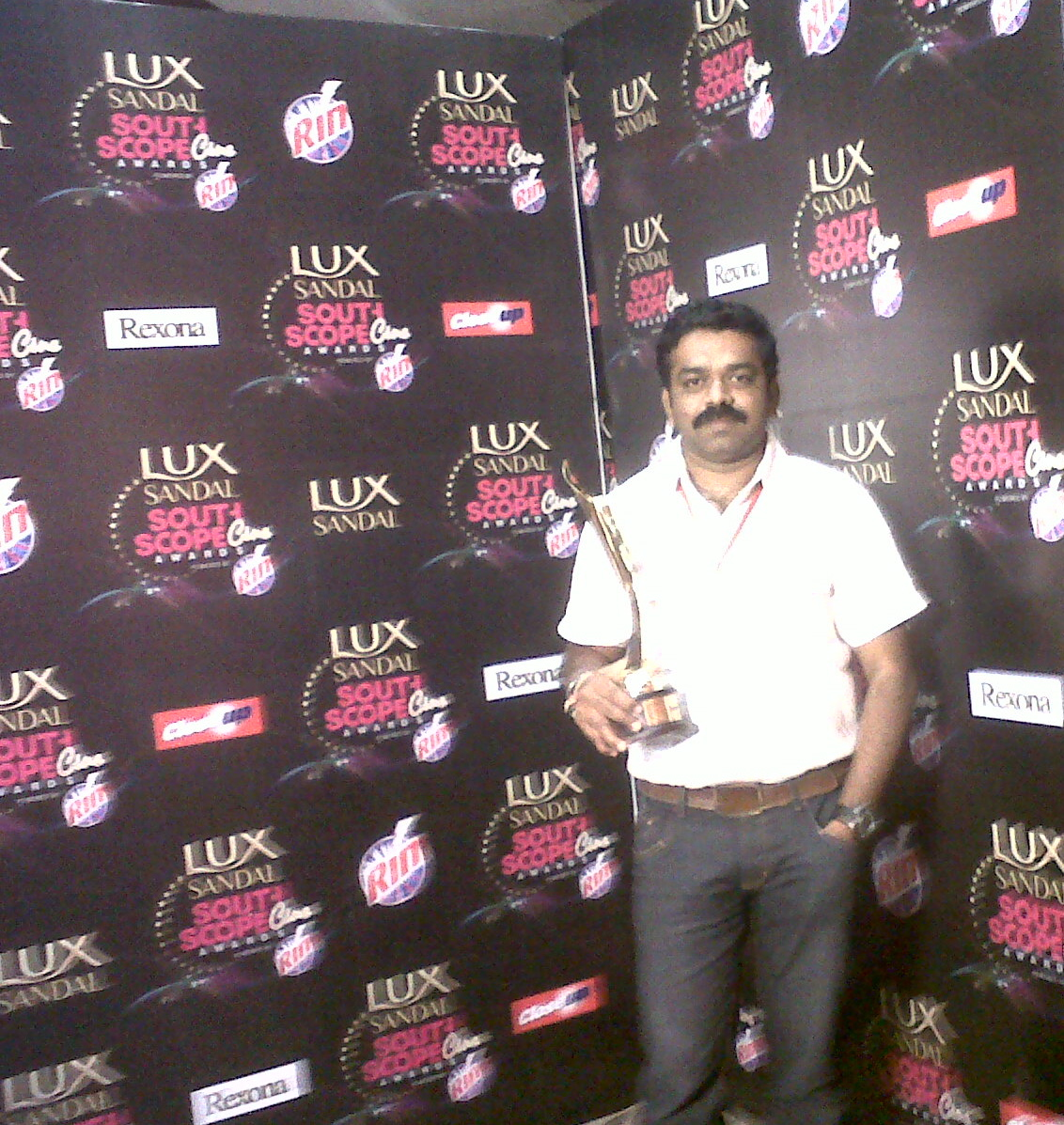 krishna.dop1